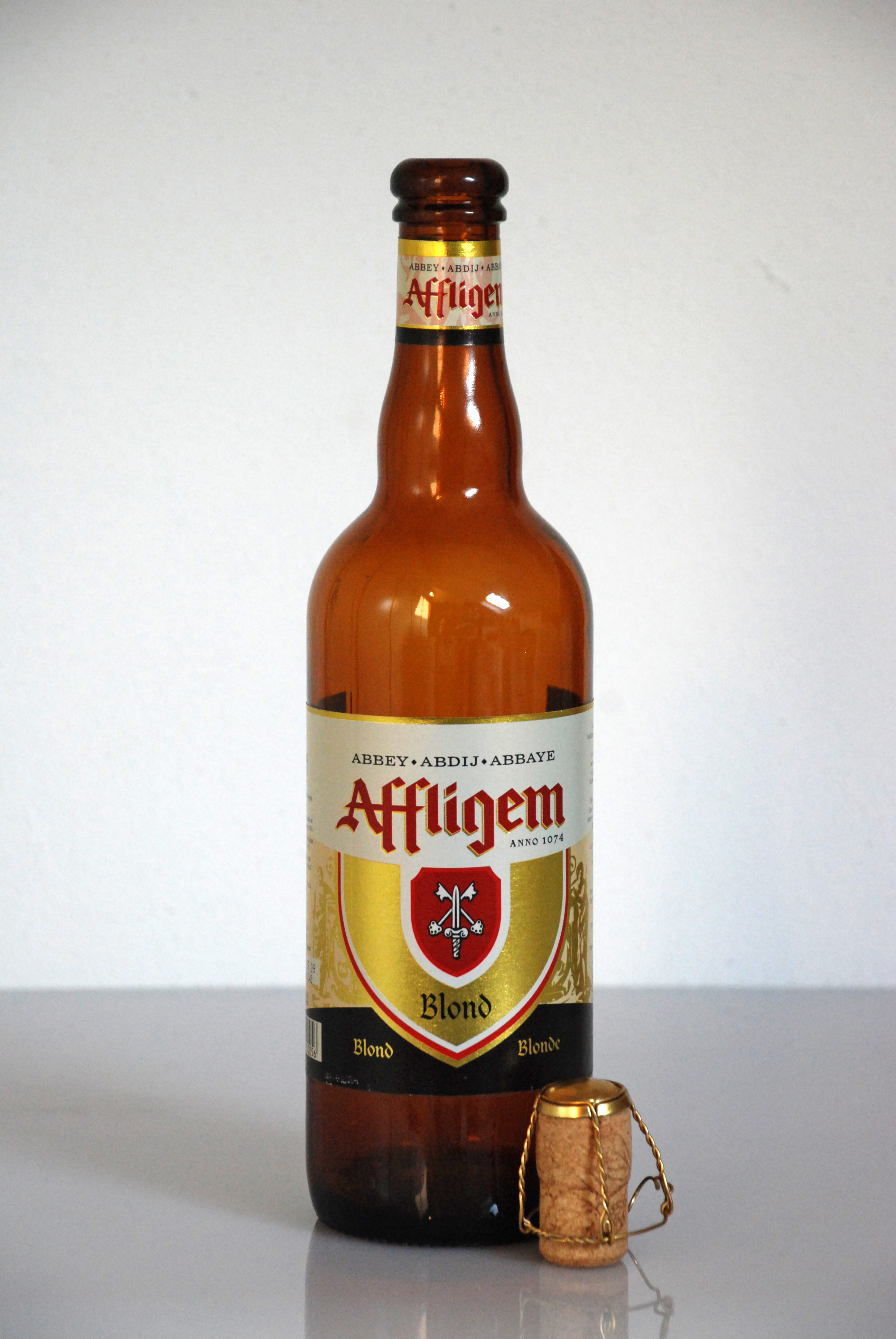 Bottle of Affligem beer.